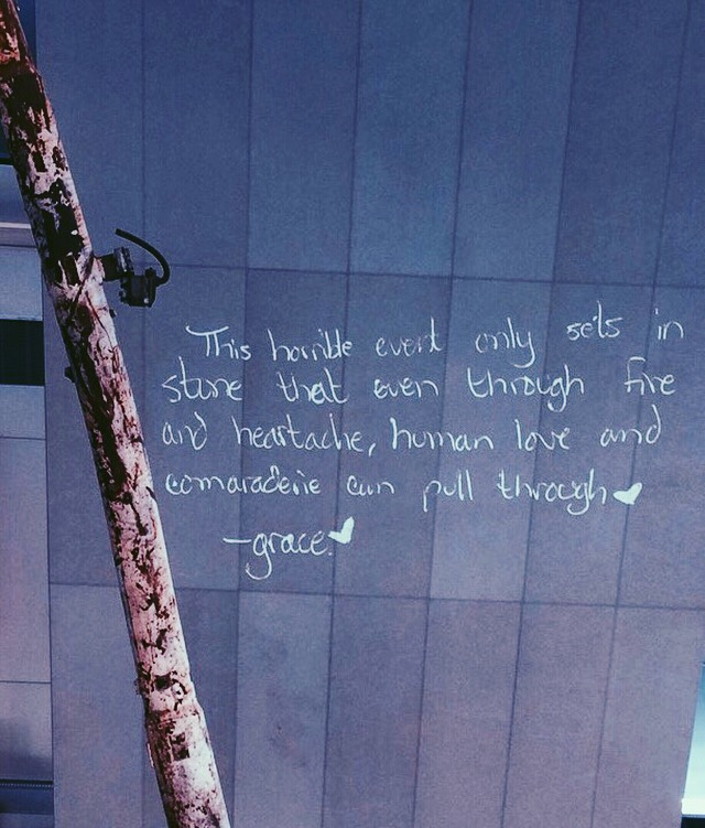 In this interactive element, visitors are encouraged to write their experiences down and then they are projected for other visitors to read. Transcript: "This horrible event only sets in stone that even through fire and heartache, human love and camaraderie can pull through ❤ —grace.❤"